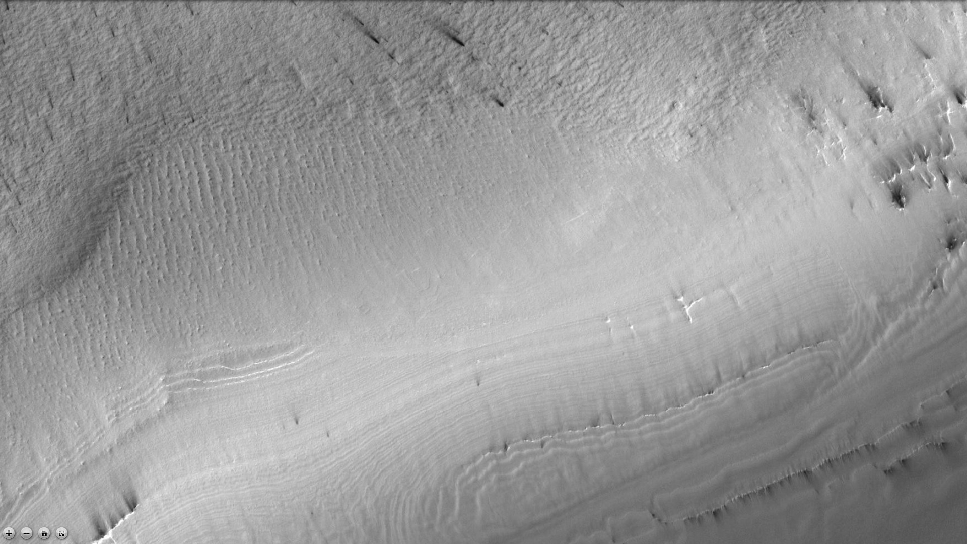 Reynolds crater showing dark streaks fromdefrosting, as seen by ctx